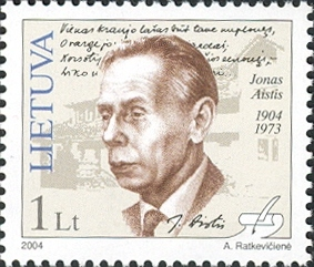 Stamps of Lithuania, 2004